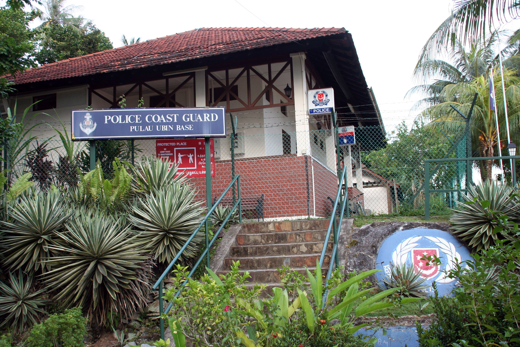 Description: The Police Coast Guard's Pulau Ubin Base. Source: Self-made Location: Pulau Ubin, Singapore Date: 15/12/2005 18:11 Photographer/Painter: Huaiwei